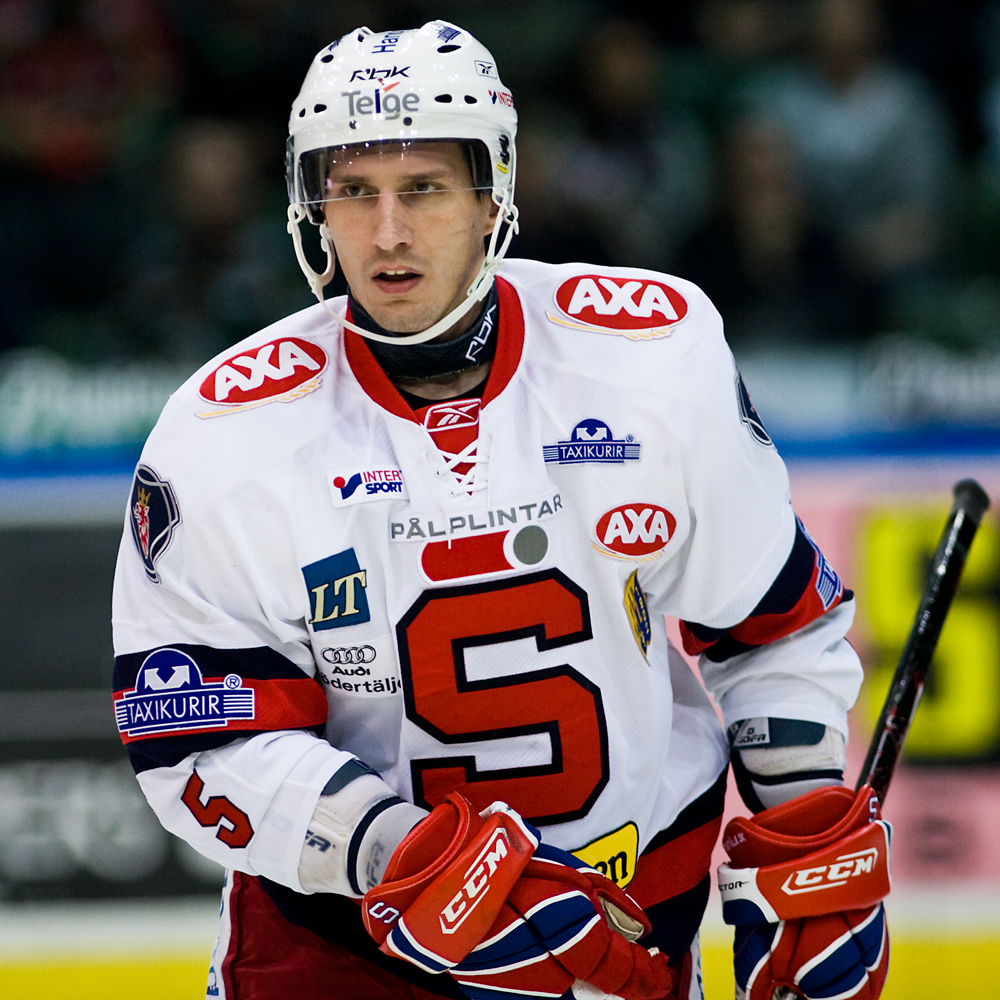 Martin Richter of Södertälje SK during an Elitserien game against Frölunda HC in Scandinavium, Gothenburg, on November 17, 2008.